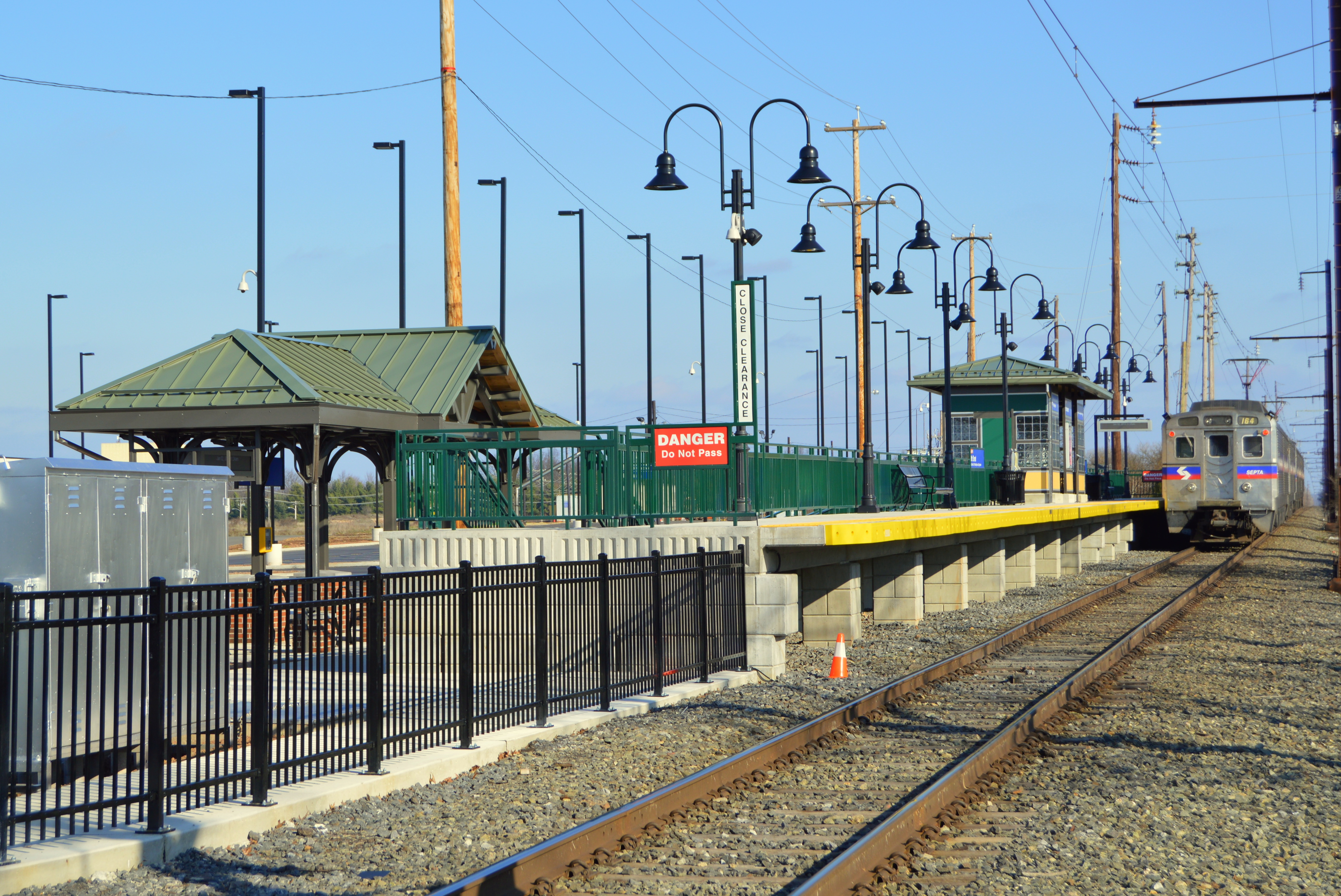 A SEPTA train at 9th Street station in January 2016